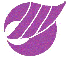 Kawadu Shizuoka chapter